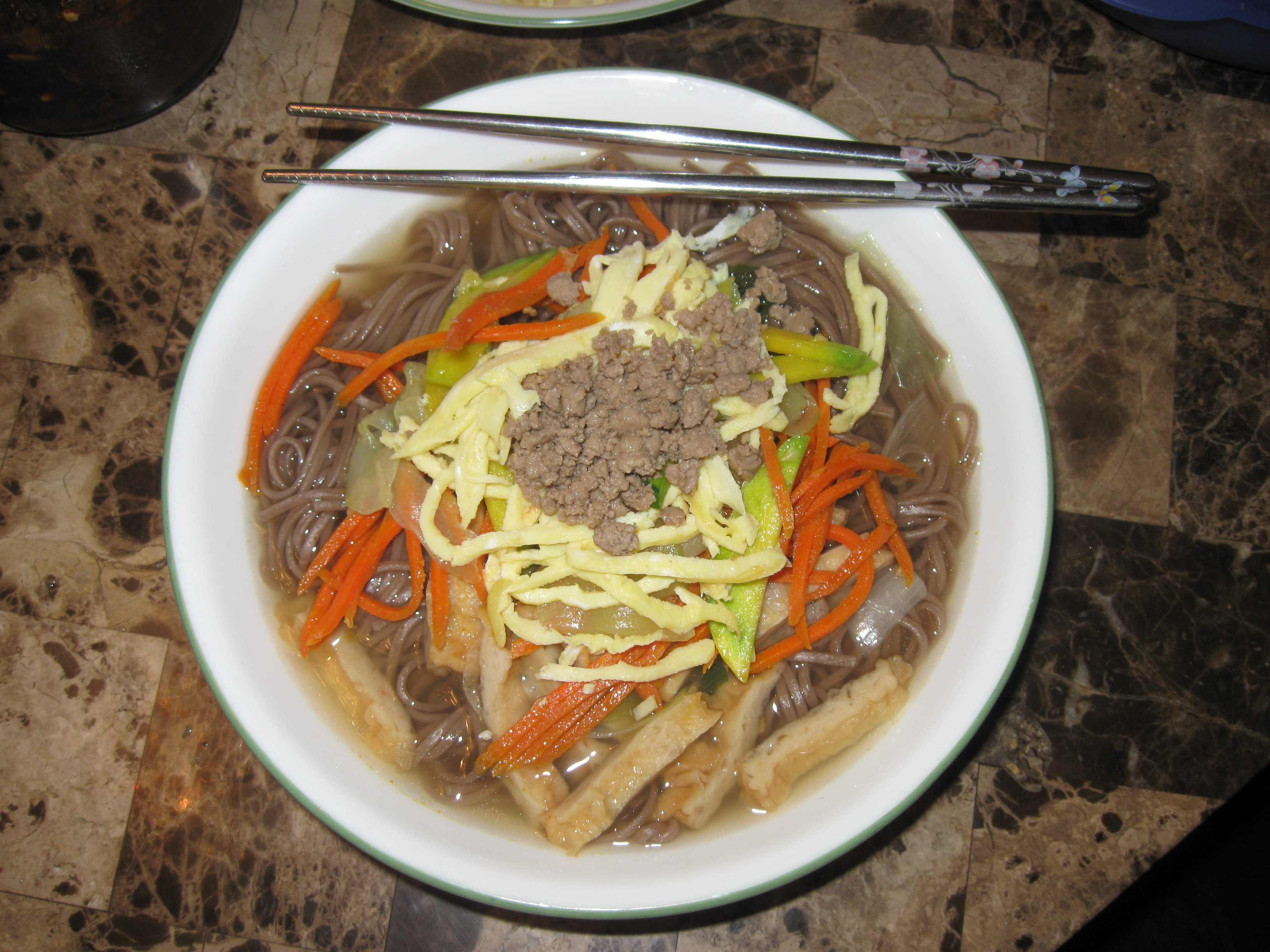 Korean Dotori Guksu (Acorn noodle soup)